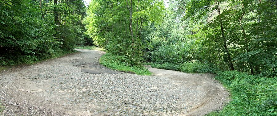 Serpentine of Tuputiškės (Lithuania)